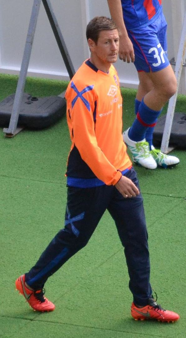 Nathan Burns after the Tamagawa Clasico - the match between FC Tokyo and Kawasaki Frontale - played at Ajinomoto Stadium 16th April 2016.